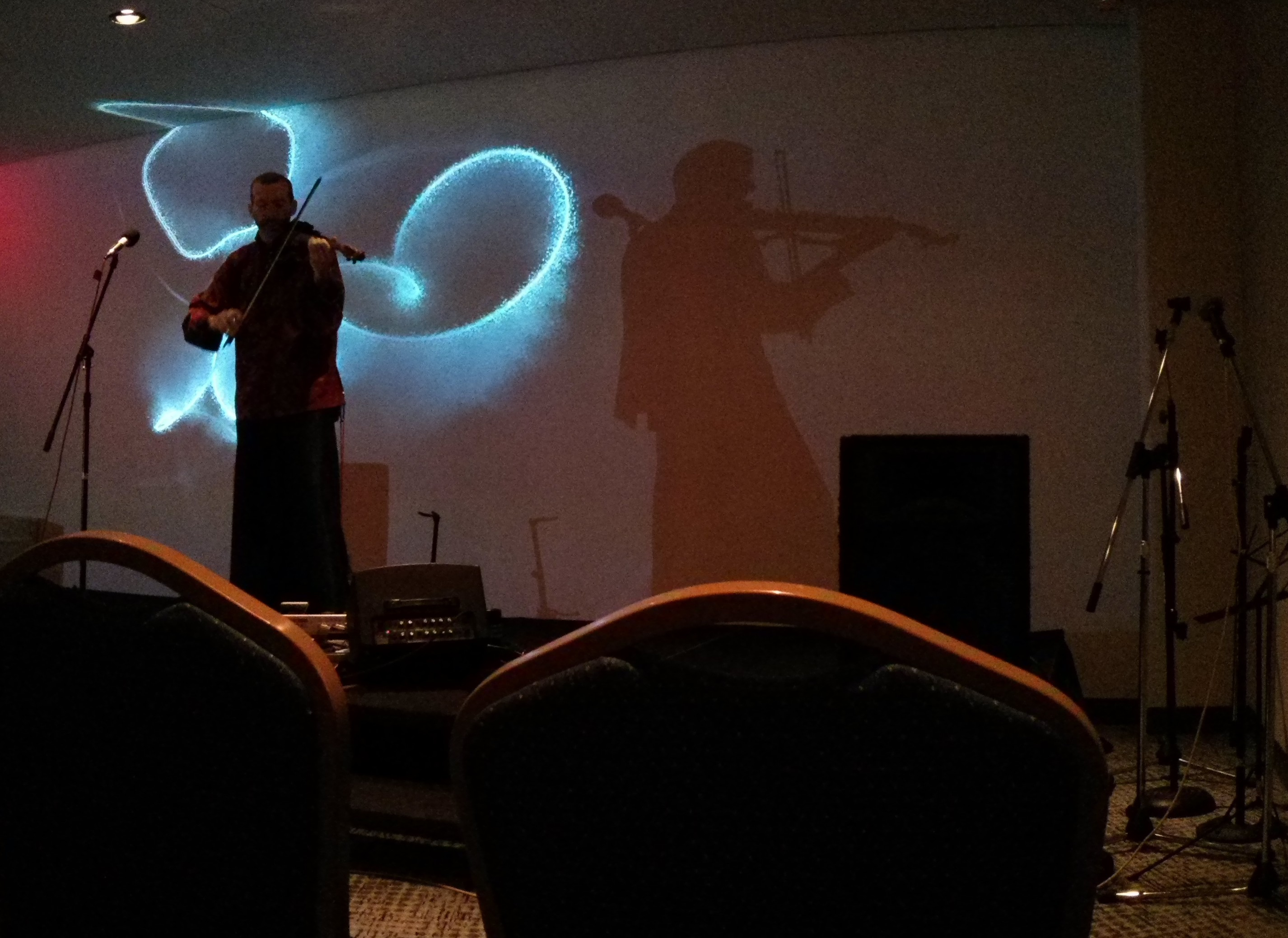 Concert by Dixon's Violin at Detcon1